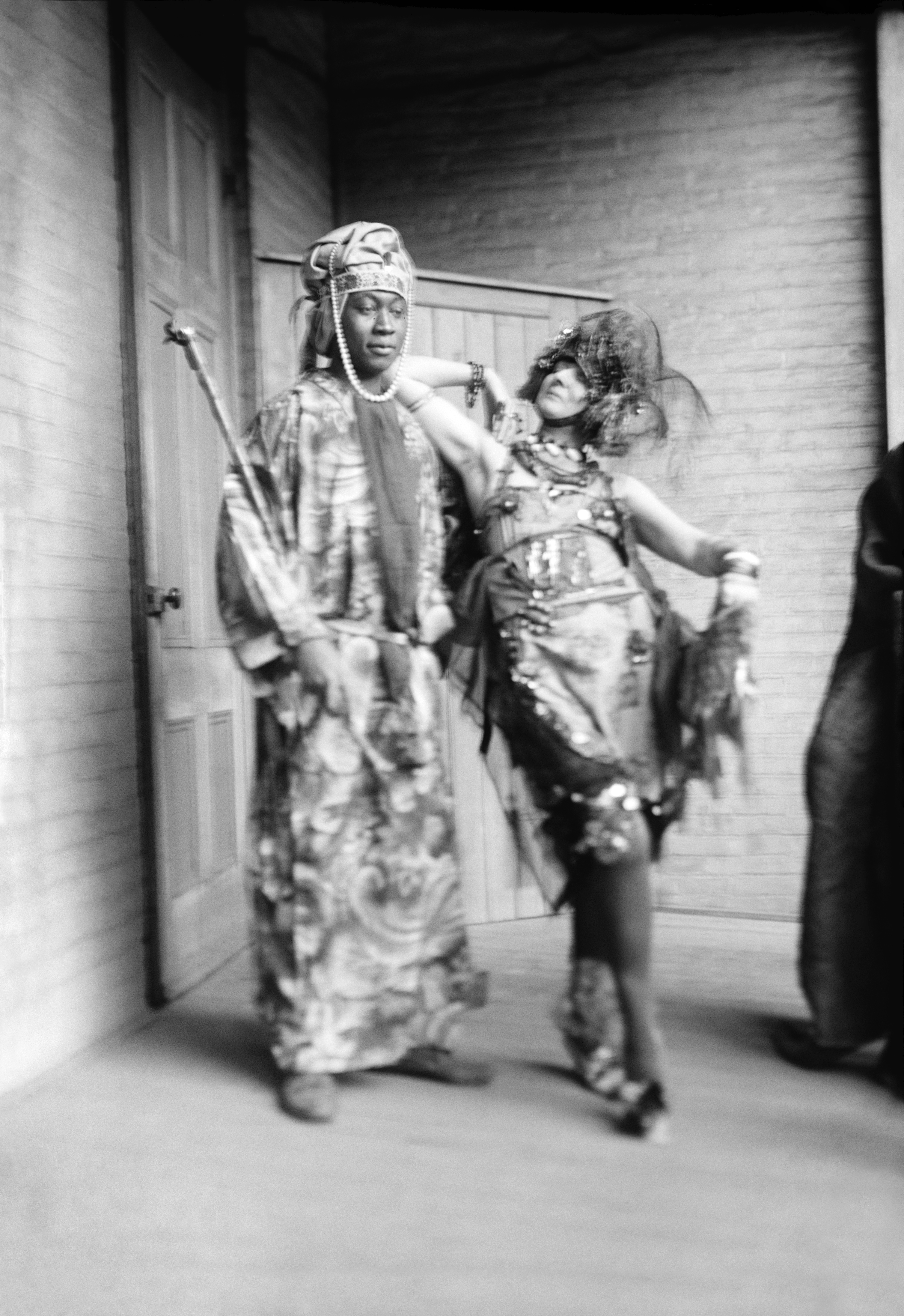 Baroness Von Freytag-Loringhoven and Claude McKay. Glass negative 5 x 7 inches or smaller.